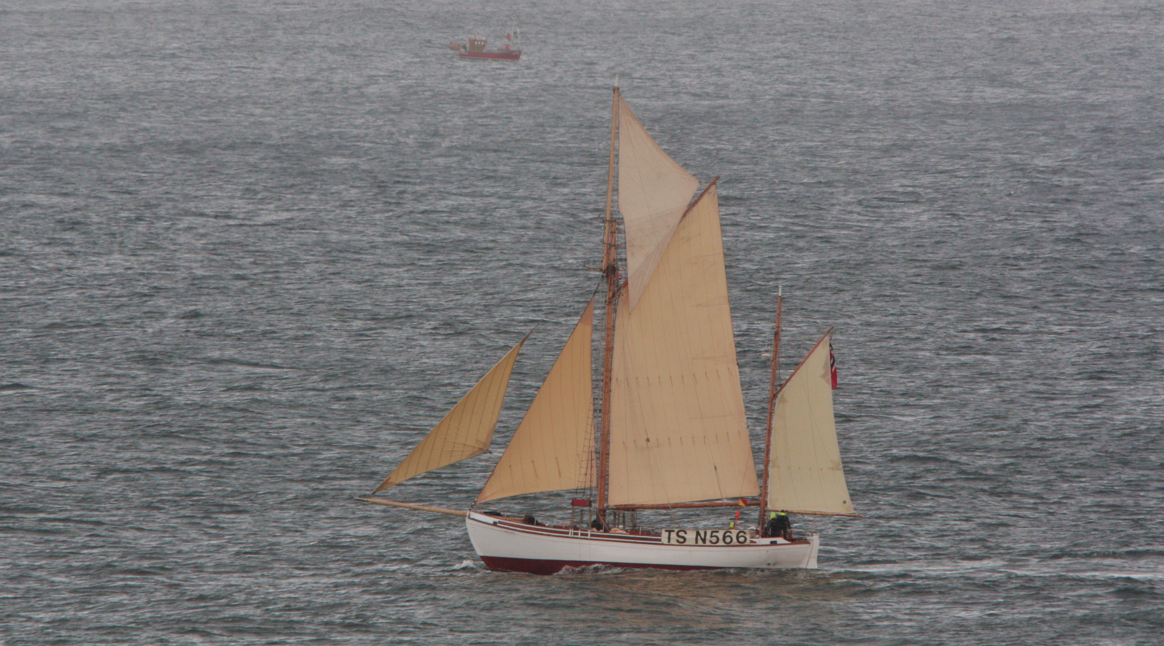 Continuing on her journey, probably Alesund.